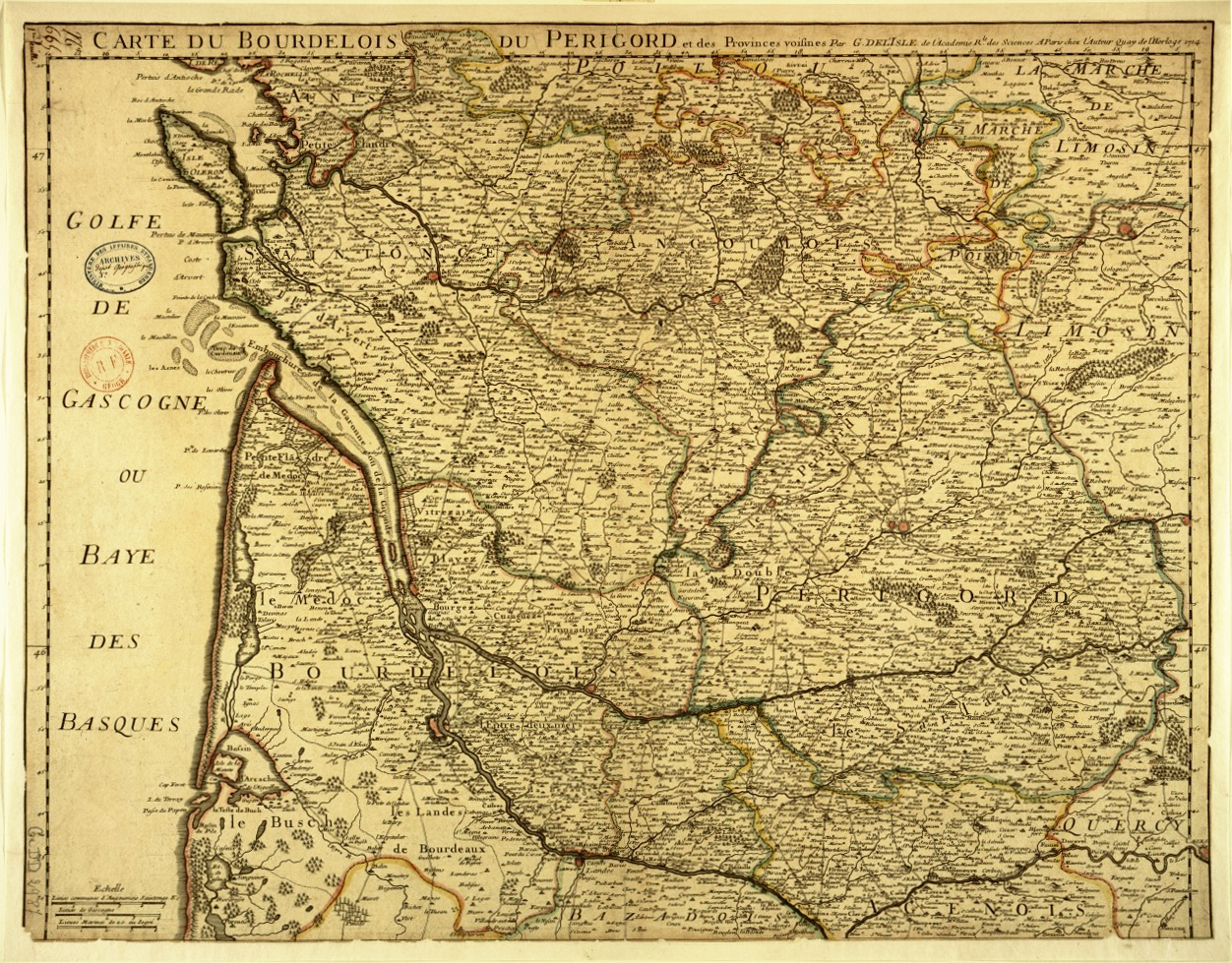 Carte du Bourdelois, du Périgord et des provinces voisines.